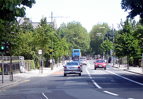 Photograph of the South Circular Road, Portobello, Dublin.